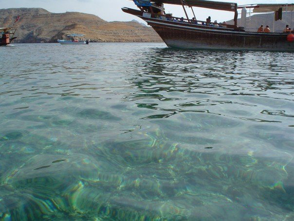 Omeir Yusuf